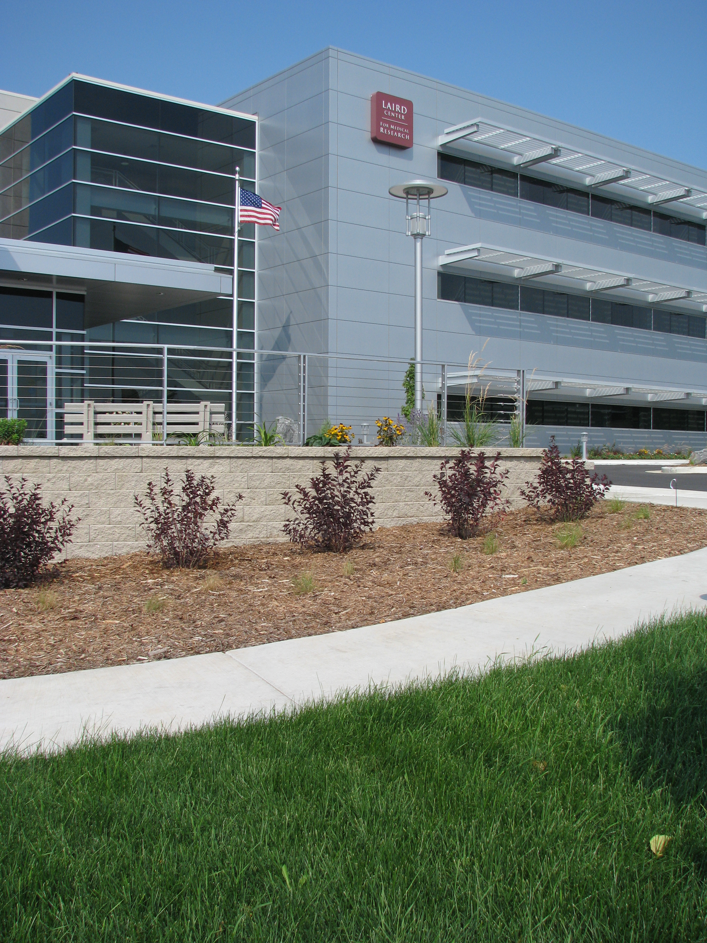 Marshfield clinic research building